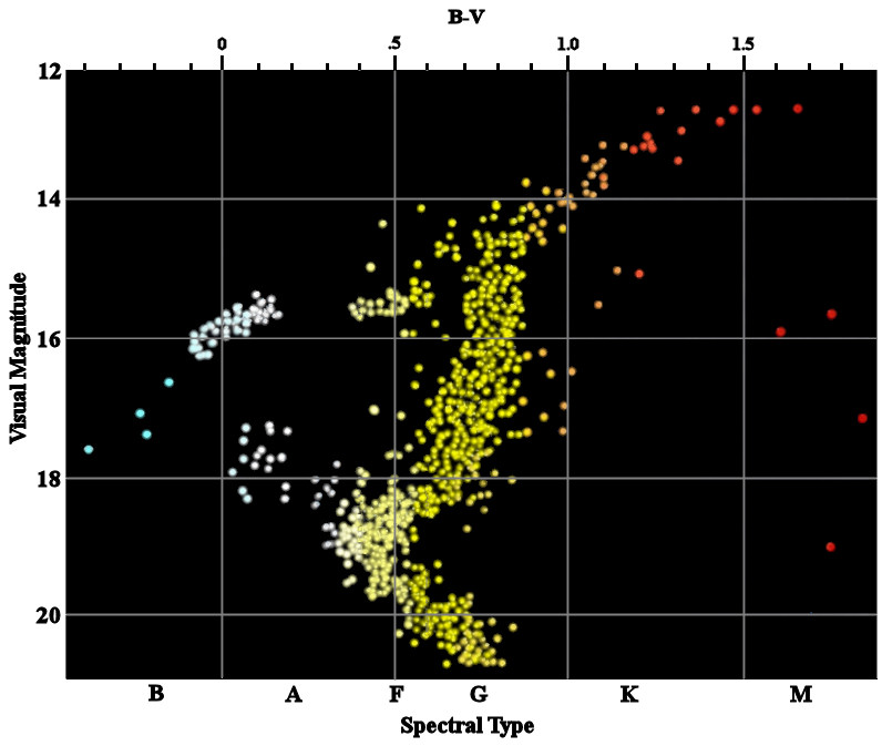 This is a color-magnitude diagram for the Messier 3 globular cluster (after A.R. Sandage 1953). The colored points on the chart represent the plotted positions of stars in the cluster. The horizontal scale is based on the B—V color index of the measured stars. From the main sequence stars at magnitude 19 and fainter, the plot forms a knee that bends toward the upper right. Based on the position of the knee, the distance modulus for this cluster is determined to be 15.7. The stars along the upper right branch have left the main sequence and entered the red giant stage. From the red giants branch, a horizontal branch then runs to the left. Note the gap in this branch at visual magnitude 15–16 and spectral type A, where there is a population of variable stars.